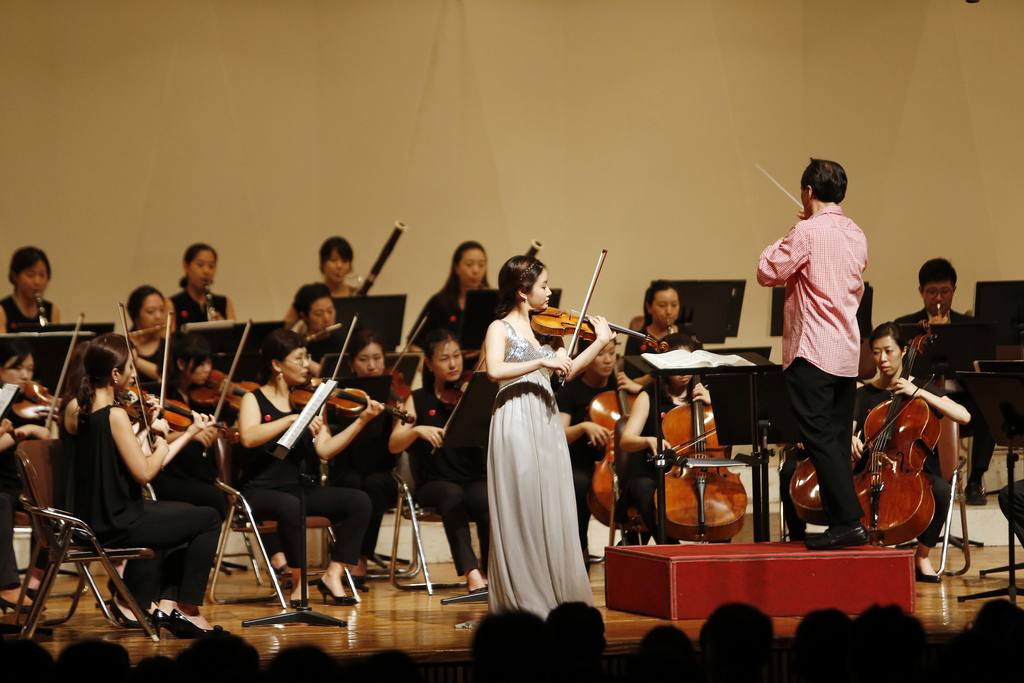 Music Festival at POSTECH